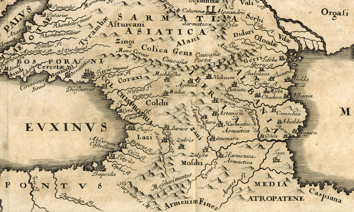 The detail from the map “Bosporus, Maeotis, Iberia, Albania et Sarmatia Asiatica “ by CHRISTOPHORUS CELLARIUS (1638-1707), from the book “Notitiae Orbis Antiqui sive Geographiae Plenioris Tomus Alter Asiam et Africam“, printed in Leipzig by Gleditschi, in 1706. Based on works of Herodotus, Pliny the Elder and Ptolemy.